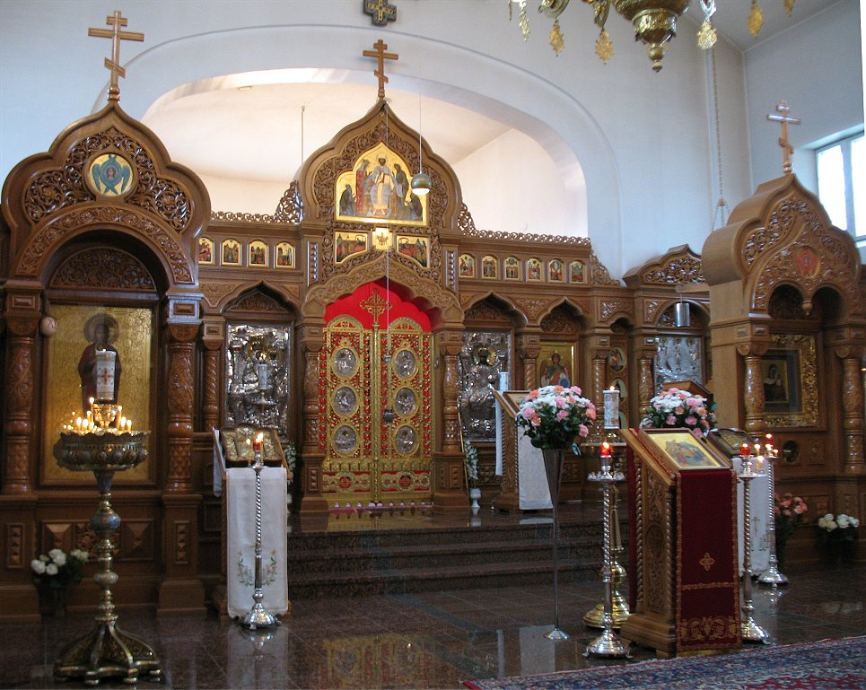 Central part of the new iconostasis of the main church of the New Valamo monestry, this iconostasis was taken into use on 20th March 2010, in Heinävesi, Finland. This iconostas was designed by chief icon painter D. Mironenko from Alexander Nevsky Lavra, St. Petersburg, Russia. Old Russian style with themes from the old Valaam Monastery of Lake Lagoda. Iconostasis was carved between autumn 2009 and early 2010 by the Holy Trinity Greek Orthodox Shigrin fraternity of Kursk area, Russia. Wood is oak and linden (basswood), later protected with medium brown wood stain.